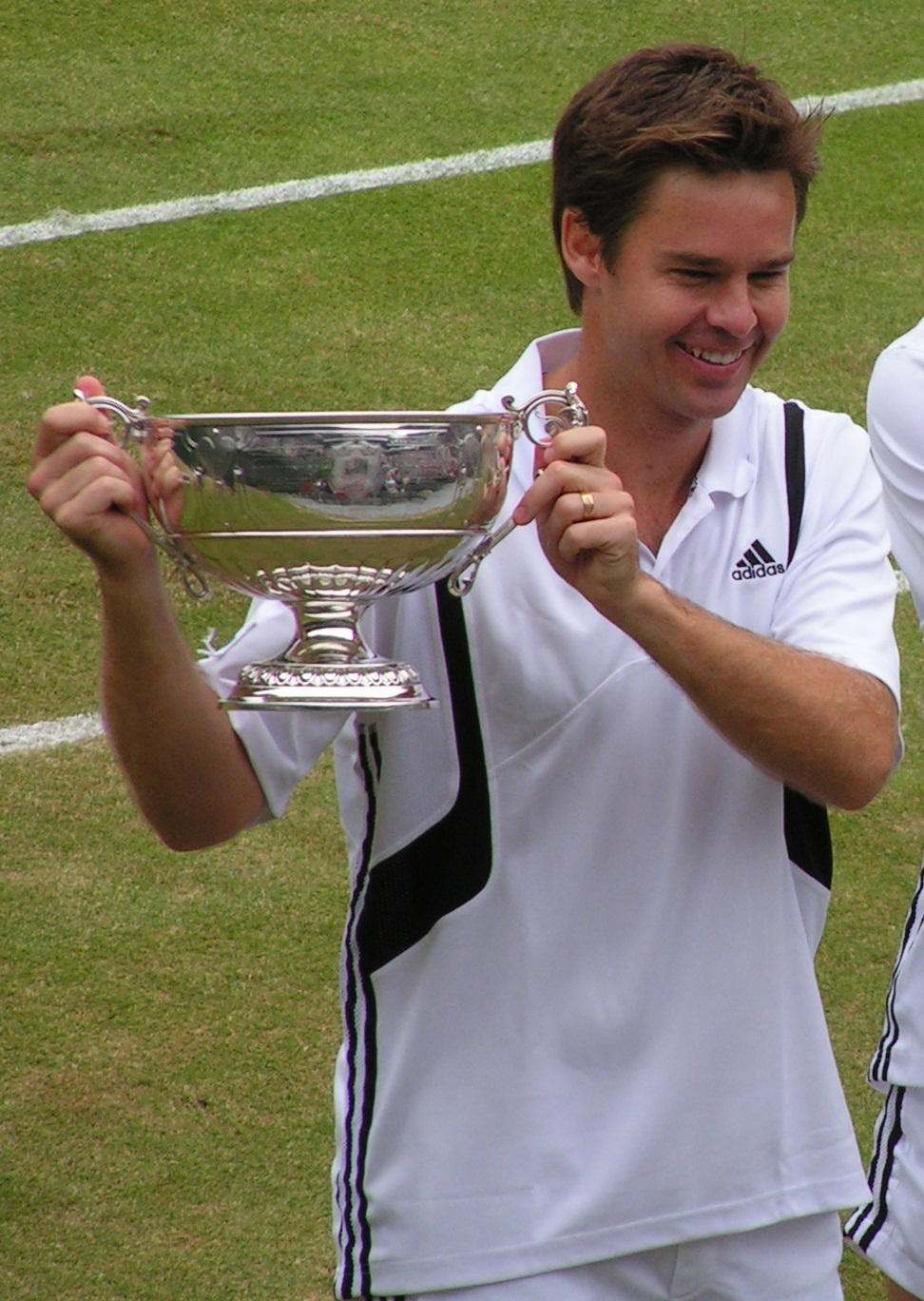 Todd Woodbridge hold trophy after winning the Wimbledon men's double final in 2004.